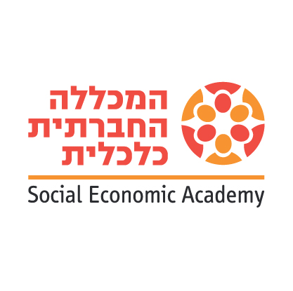 The logo of the social economical college